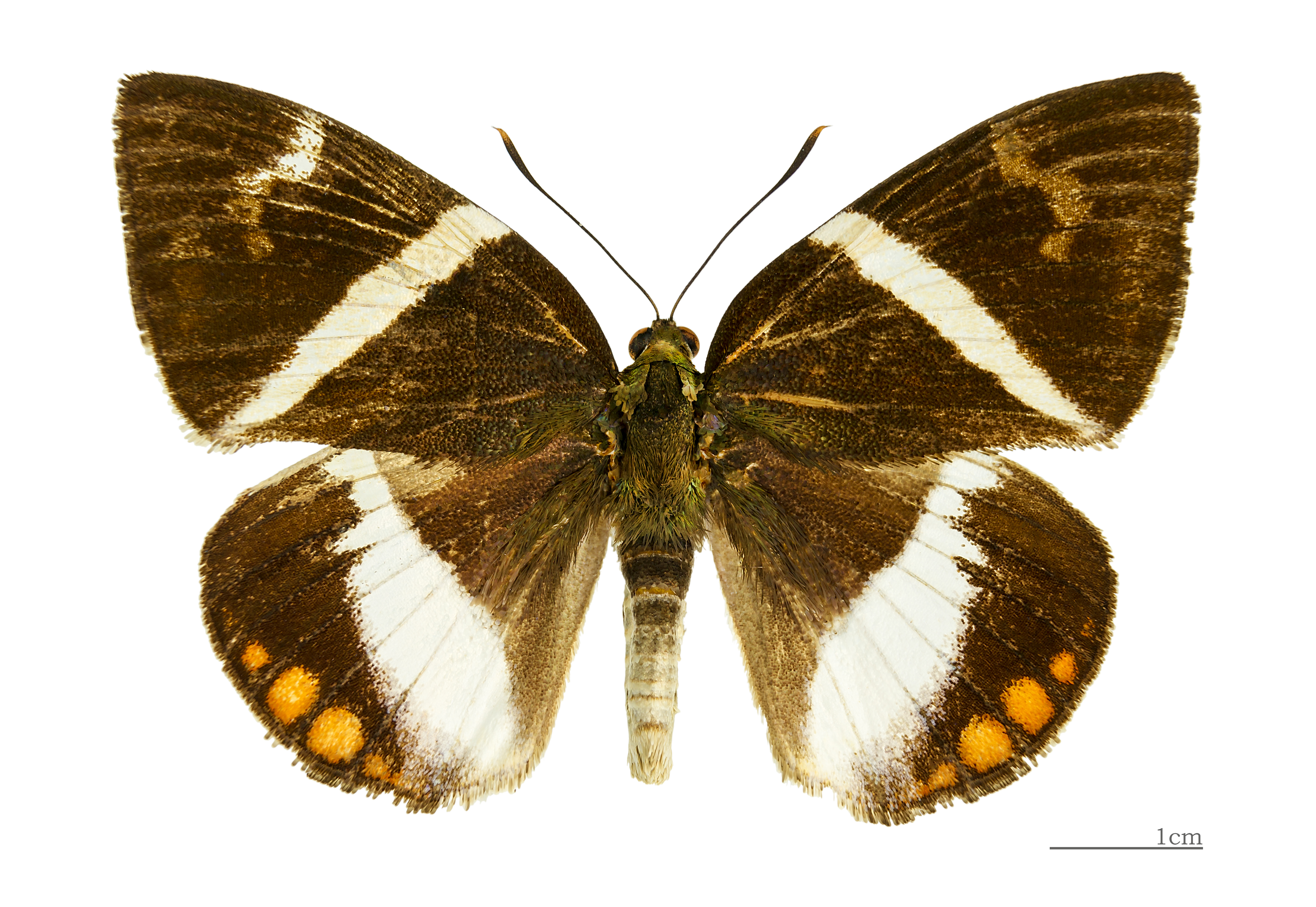 Banana Stem Borer - Dorsal side